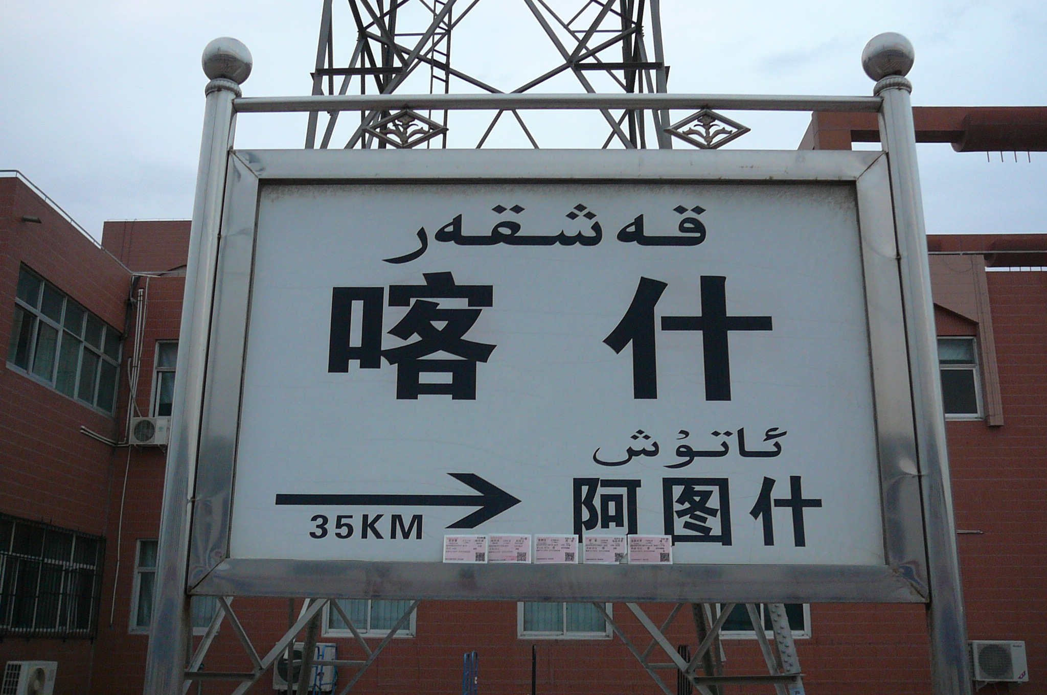 Kashgar